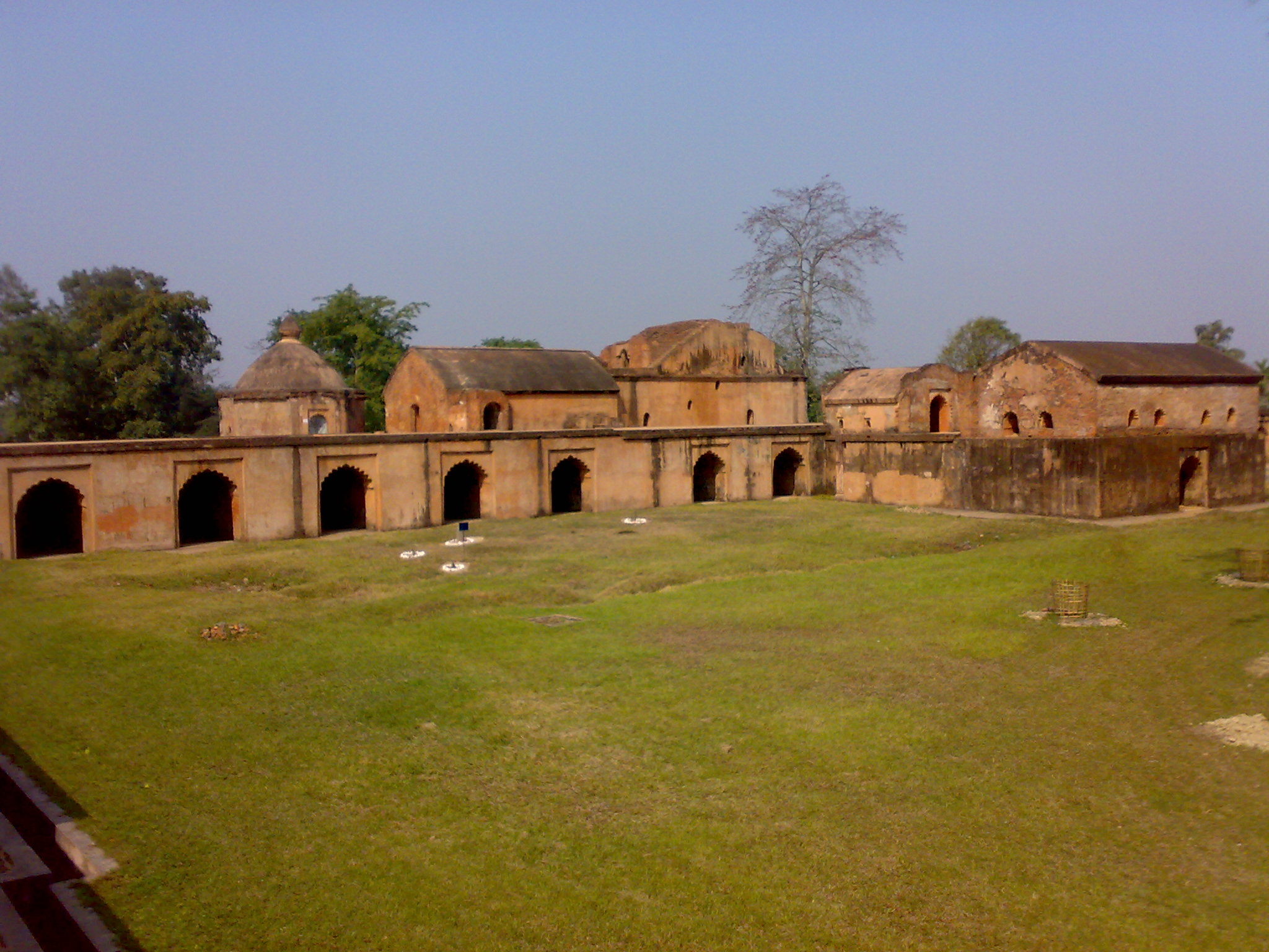 Talatal Ghar, Assam